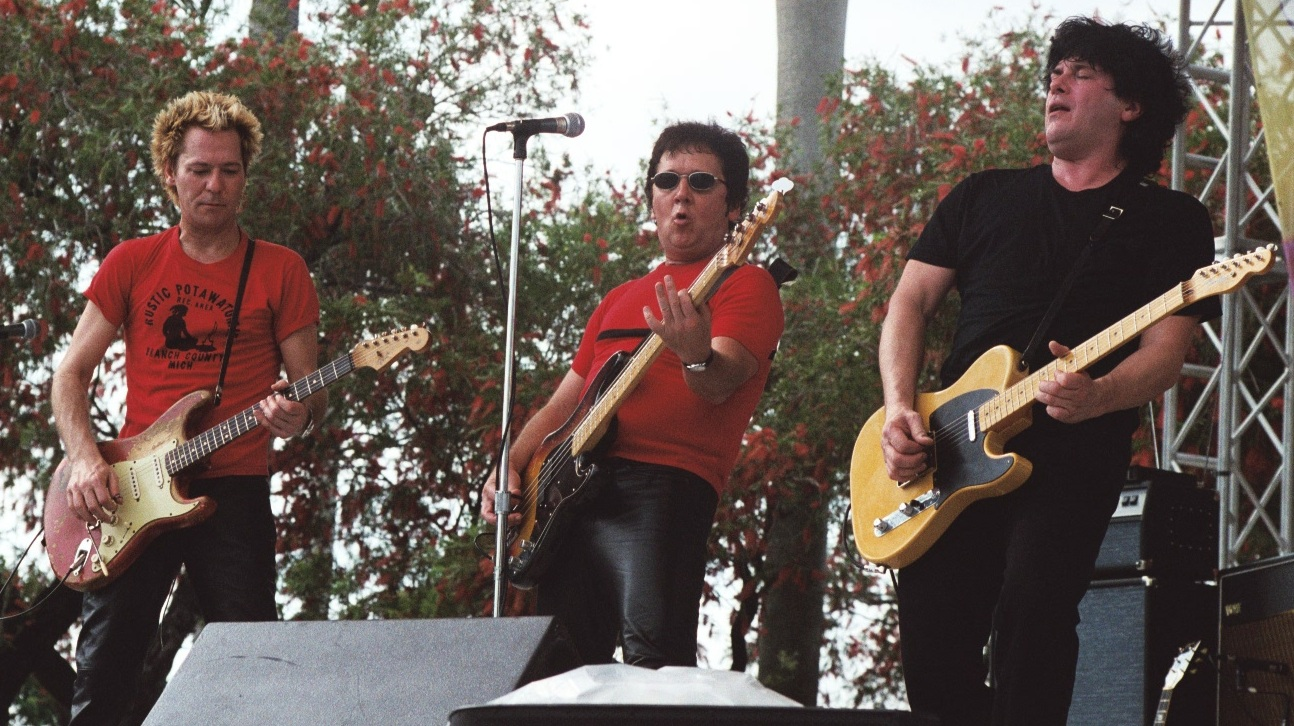 The Romantics performing at Gulfstream Park in Hallendale, FL.